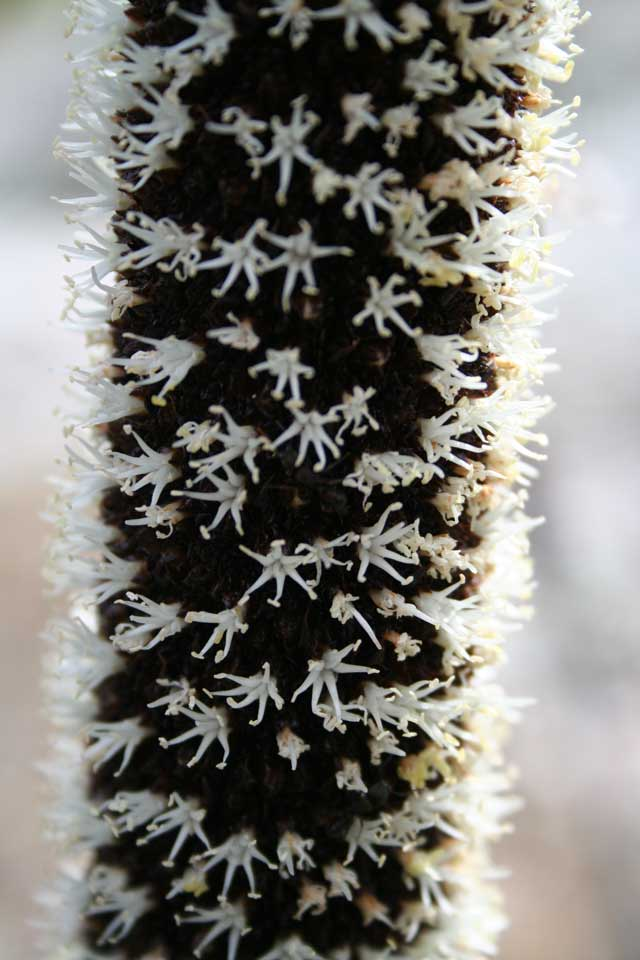 Xanthorrhoea, grass tree, black boy.